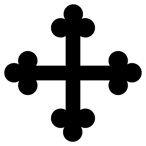 Cross Bottony (Botonny) symbol of heraldry. Has a Trefoil at the end of each arm, and so can be taken as symbolizing both Jesus and the Christian doctrine of the Trinity. For another historical Trinity cross, see Image:Triquetra-Cross.png.